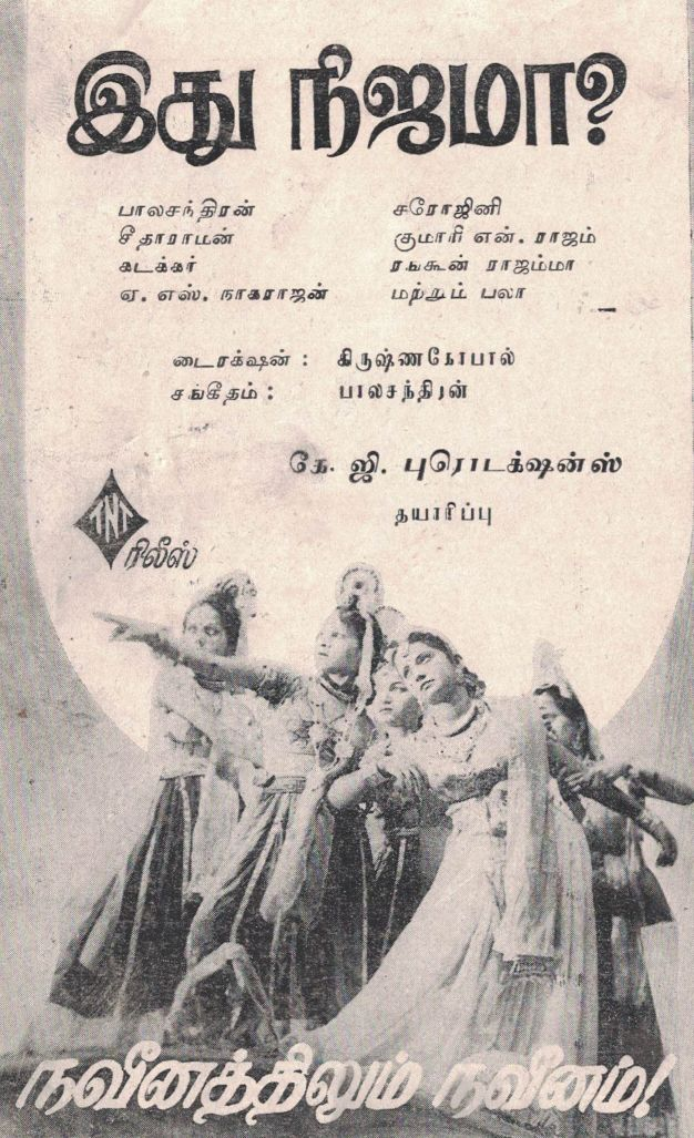 Poster for the 1948 South Indian Tamil film Idhu Nijama